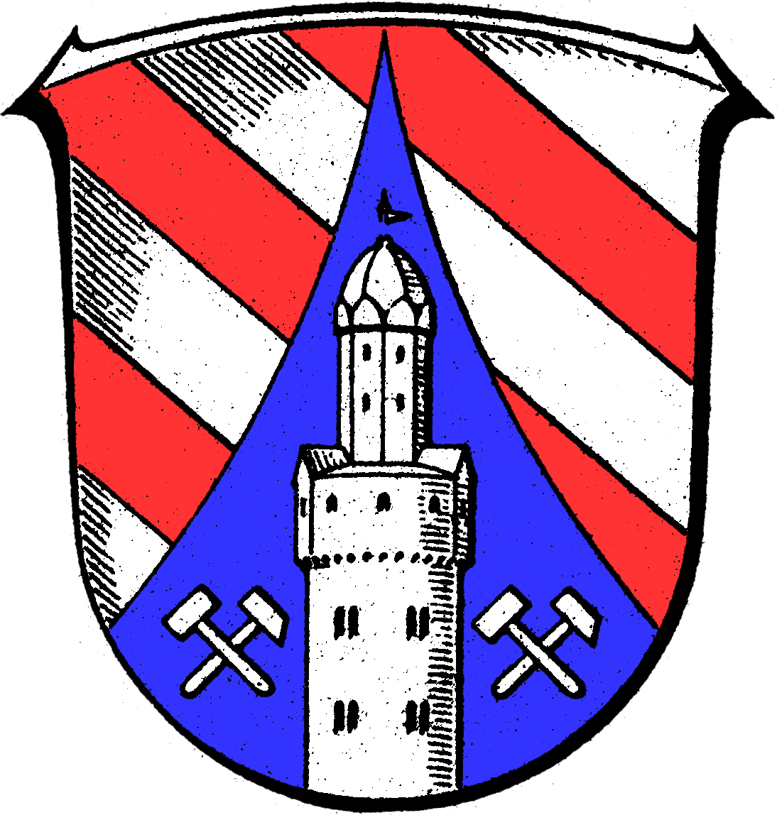 Coat of Arms of Schmitten